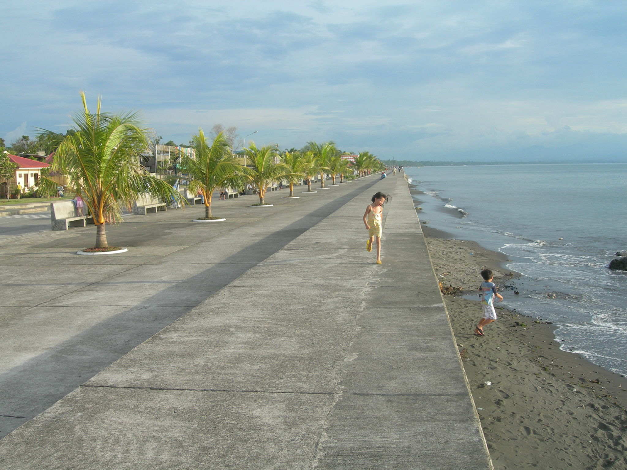 Dipolog Sunset Blvd. Dipolog, Philippines